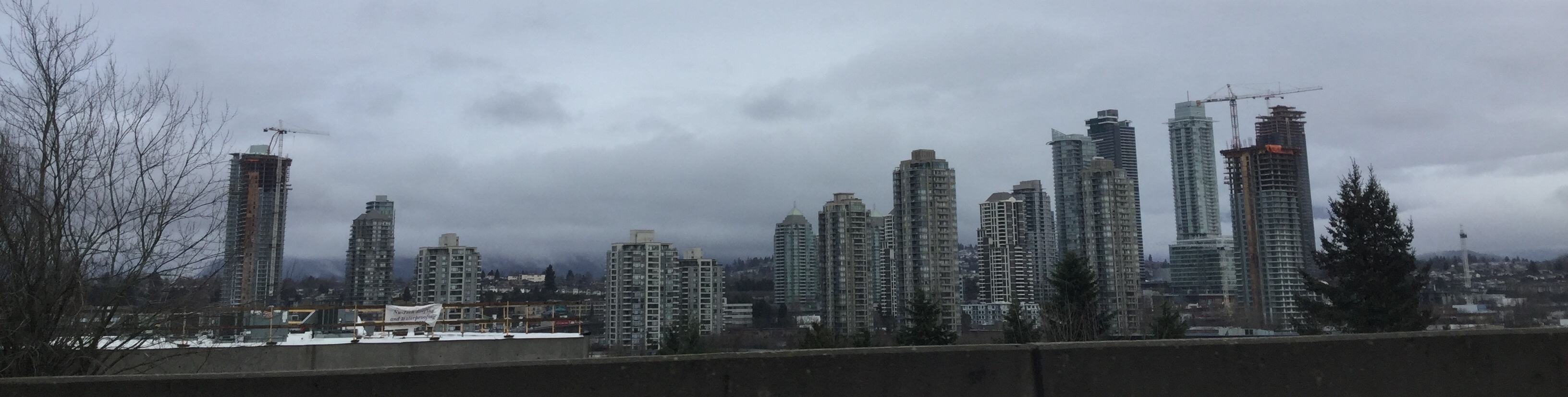 Burnabys skyline, on January 18 2019.